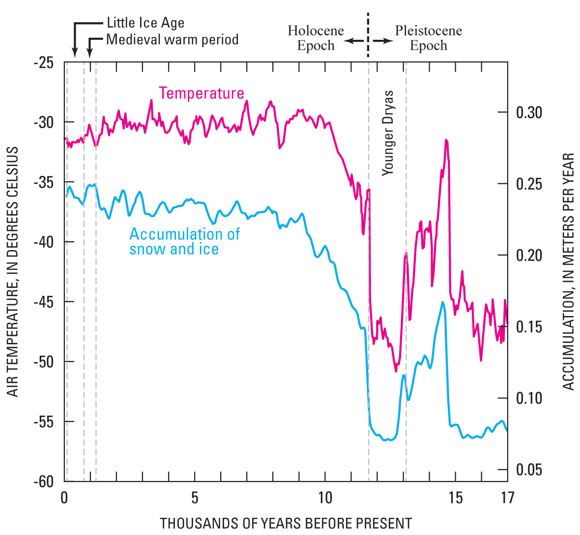 Temperature changes (determined as proxy temperatures) taken from the central areas of Greenland's ice sheet during Late Pleistocene and Beginning of Holocene.